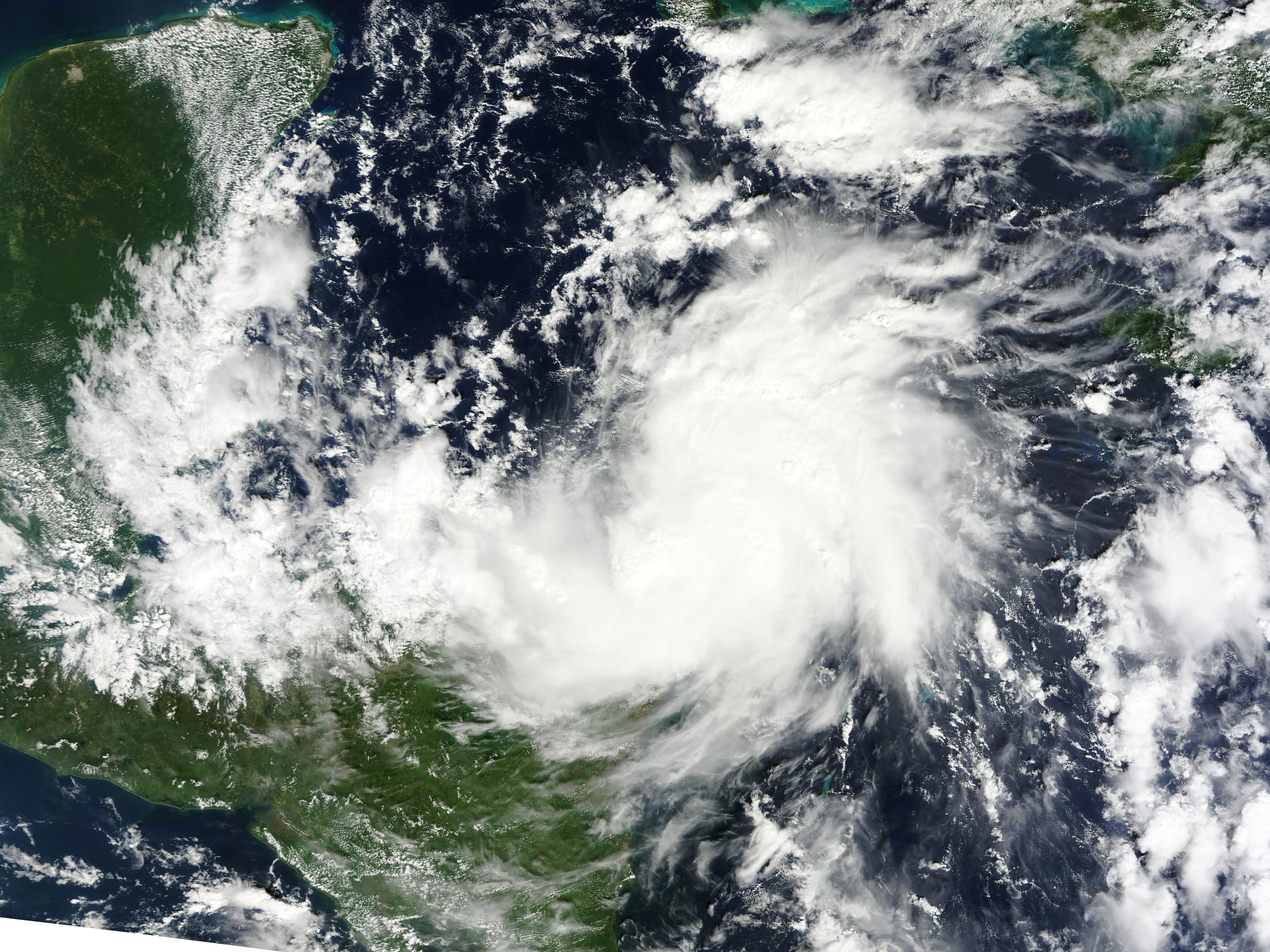 Tropical Storm Richard.